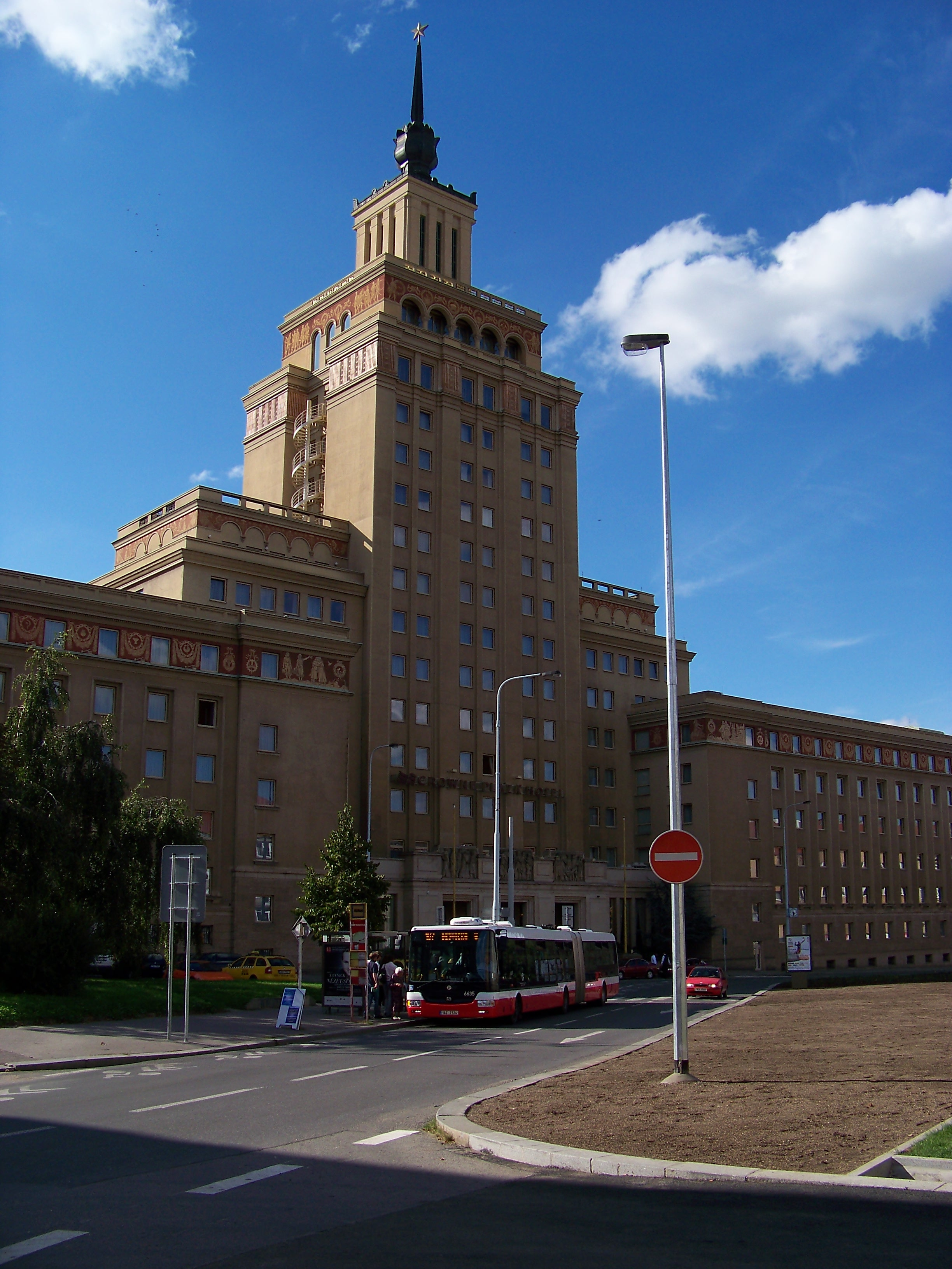 Prague-Dejvice, the Czech Republic. Jugoslávských partyzánů street, Hotel Crowne Plaza and a bus stop.